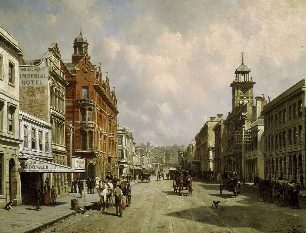 Queen Street, Auckland, New Zealand in1889.